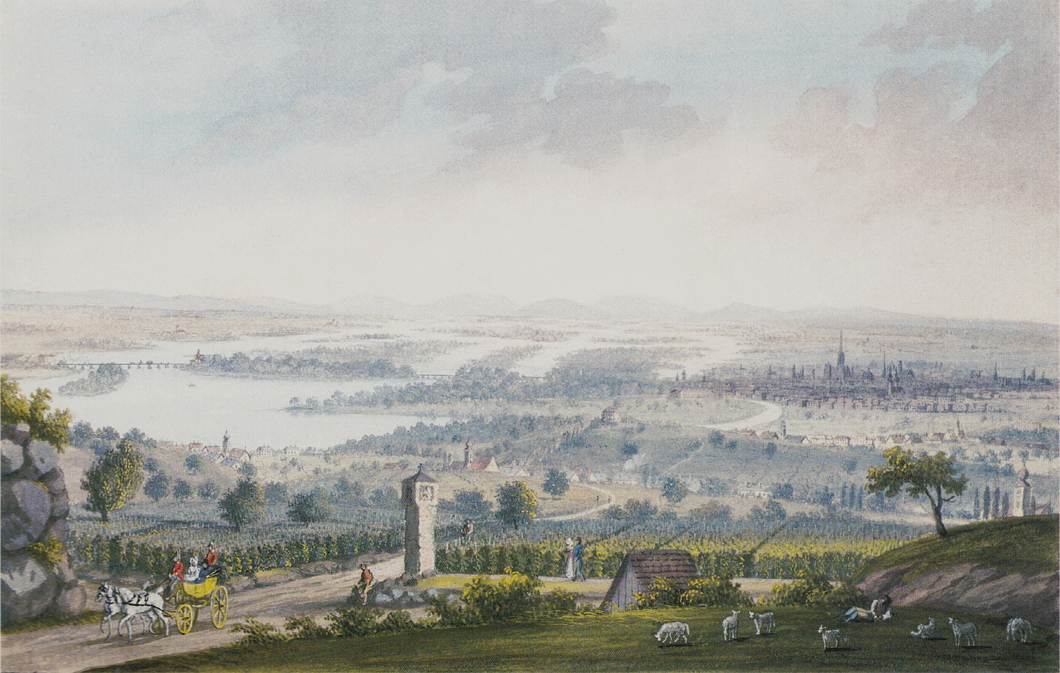 Title: View of Vienna from the Krapfenwaldl (now part of Döbling, the 19th district)